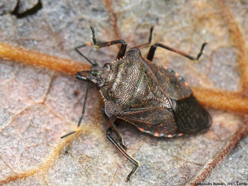 Troilus luridus